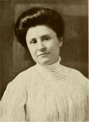 Clare Pfeifer Garrett, Strauss Photo, Johnson, Anne (André) "Mrs. Charles P. Johnson", 1871-. Notable women of St. Louis, 1914; (Kindle Location 4402). [St. Louis, Woodward.]